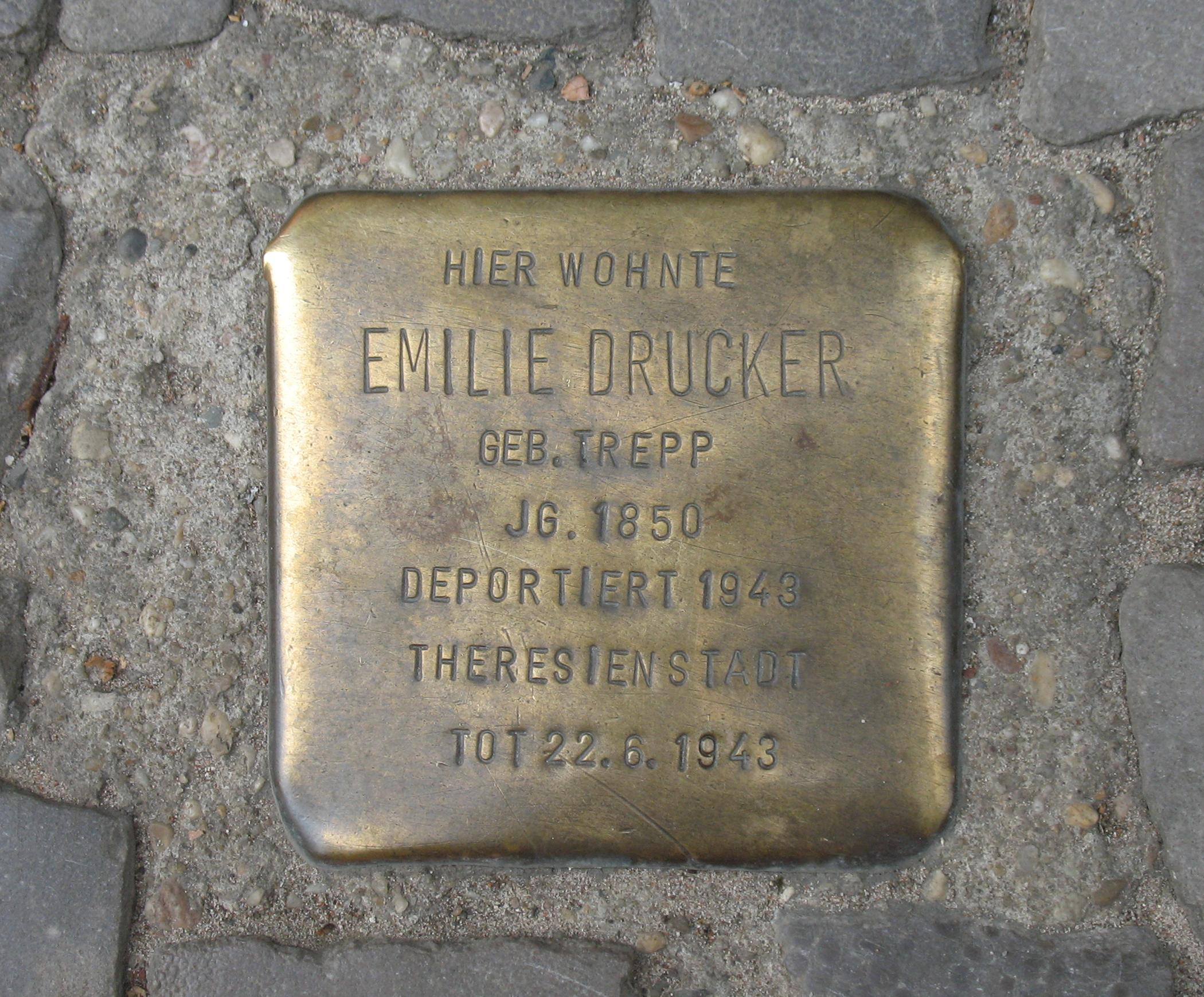 Stolperstein in Neuruppin in Brandenburg, Germany